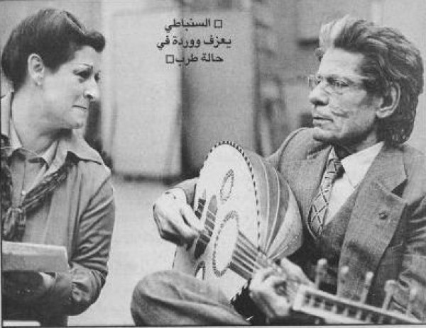 Al Sunbati playing the oud for Warda Al-Jazairia